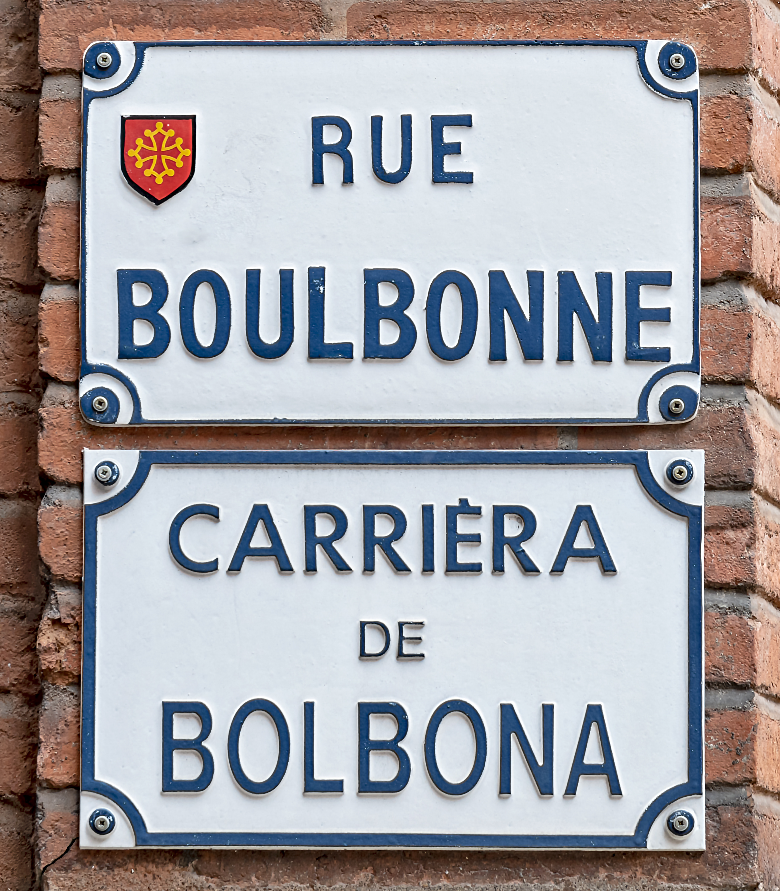 Street name sign in Toulouse. They have the particularity of being: in French and Occitan. La Rue Boulbonne.